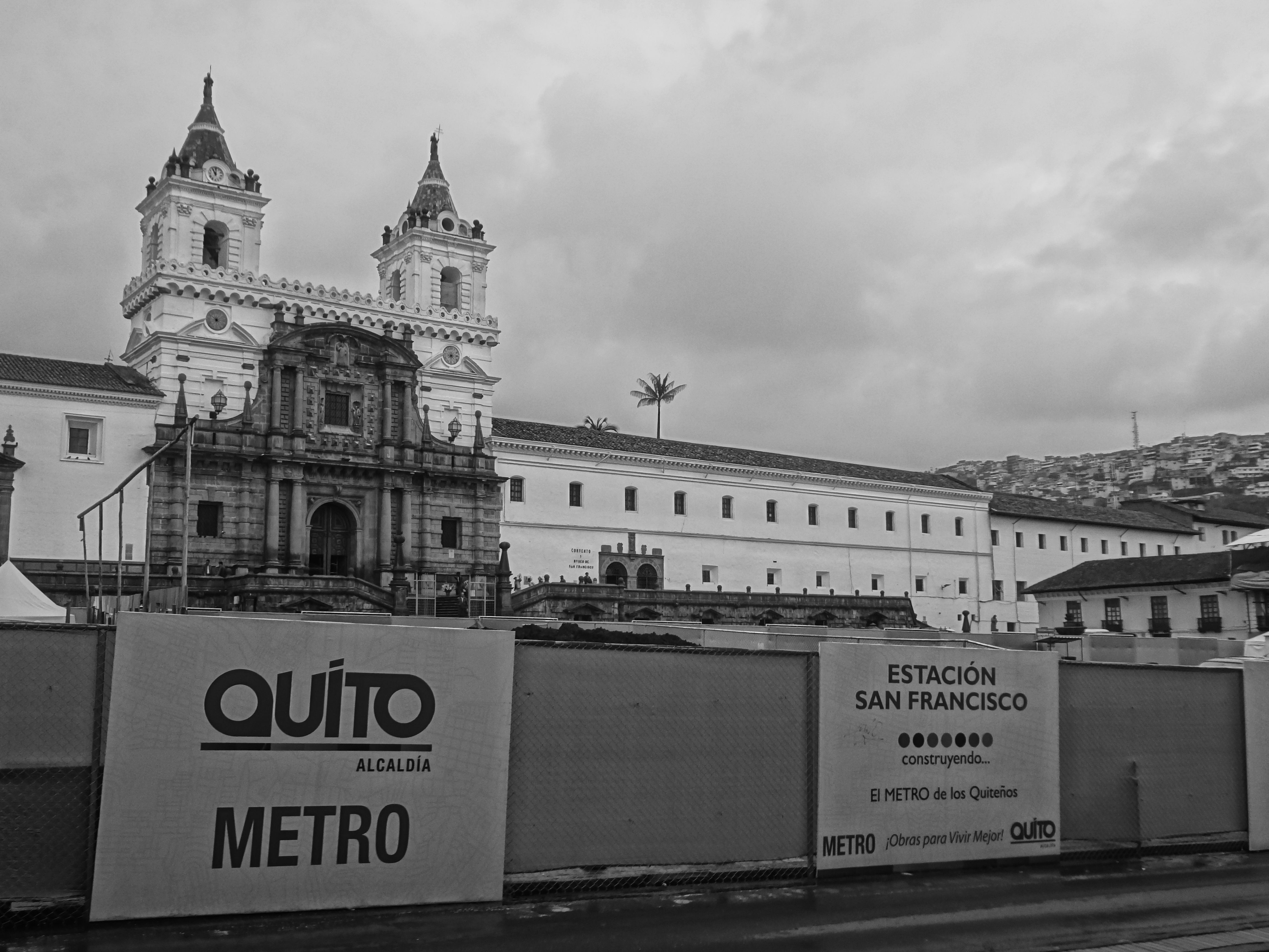 Metro de Quito Historic Center of Quito UNESCO World Cultural Heritage Site Centro Histórico de Quito Photography by David Adam Kess